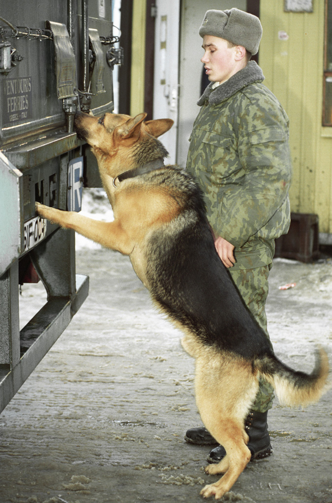 “Cynologist with dog work at Torfyanovka checkpoint”. Border guard and his dog work at Torfyanovka checkpoint on Russian-Finnish border.